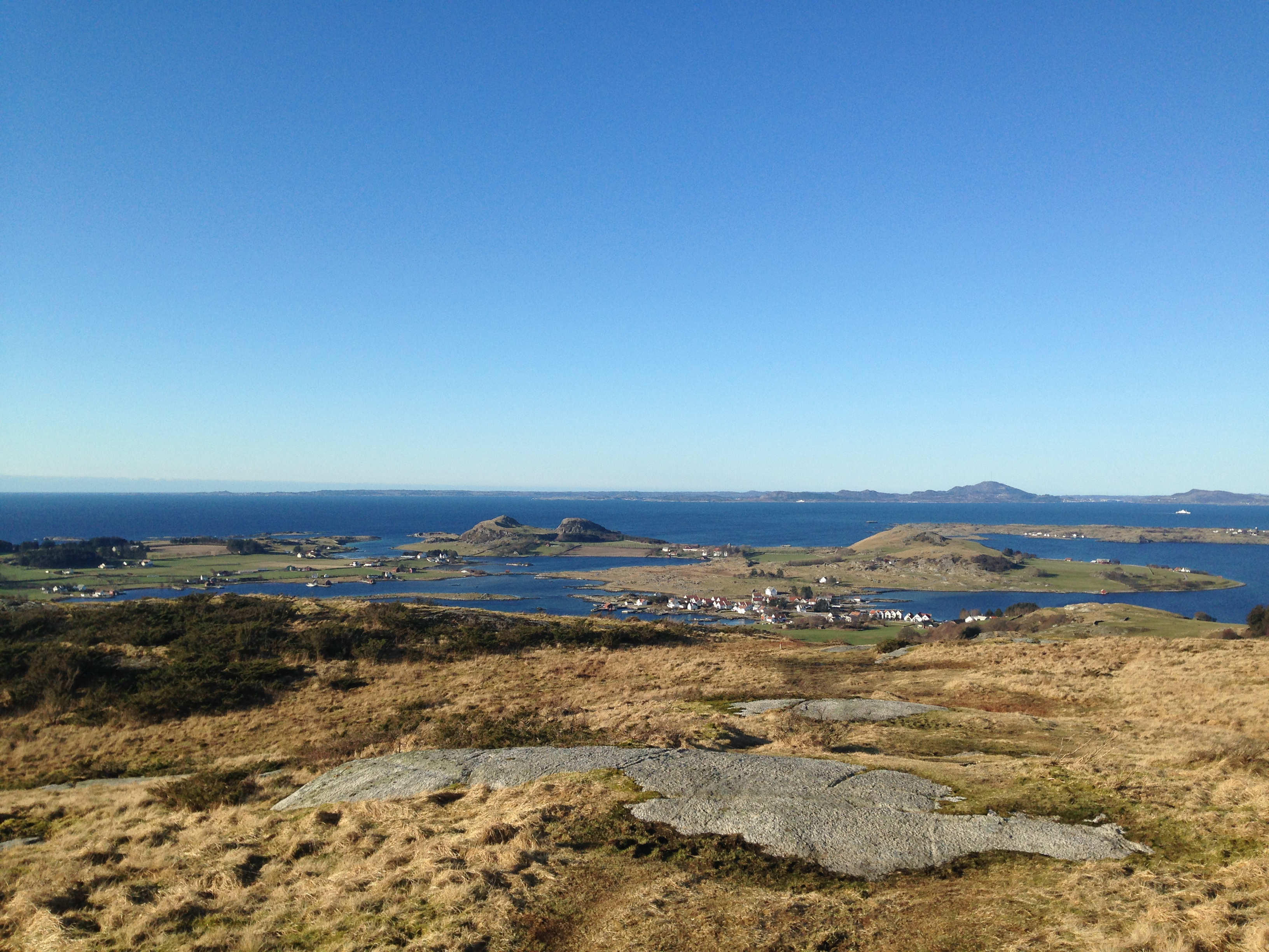 Klosterøy and Fjøløy islands seen from Mastravarden, Mosterøy (Norway)